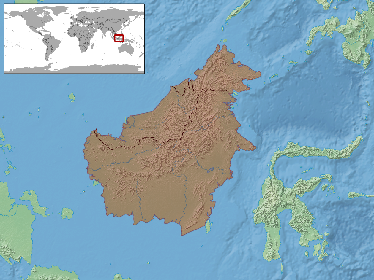 geographic distribution of Calamaria hilleniusi (Native: Indonesia (Kalimantan); Malaysia (Sabah, Sarawak))